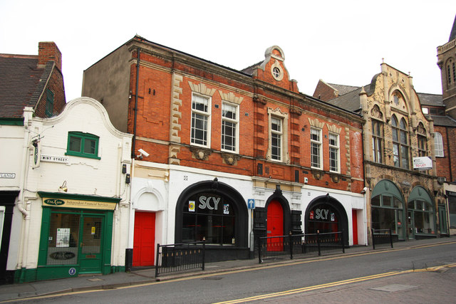 Scy bar